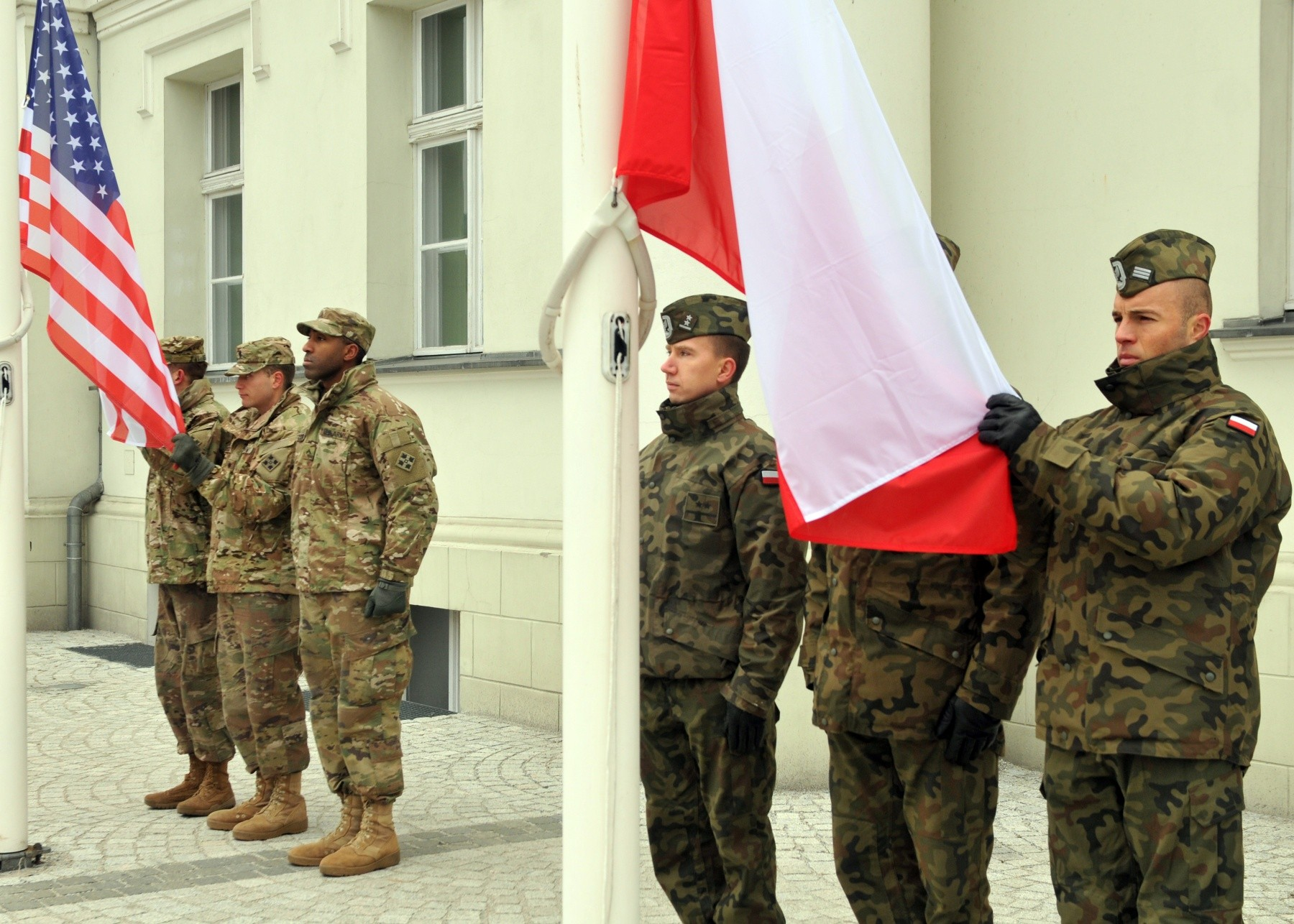 Soldiers assigned to 64th Brigade Support Battalion, 3rd Armored Brigade Combat Team, 4th Infantry Division and Polish Soldiers assigned to 35th Polish Air Defense Squadron prepare to raise the Polish and U.S. flags during a celebration ceremony welcoming American Forces.